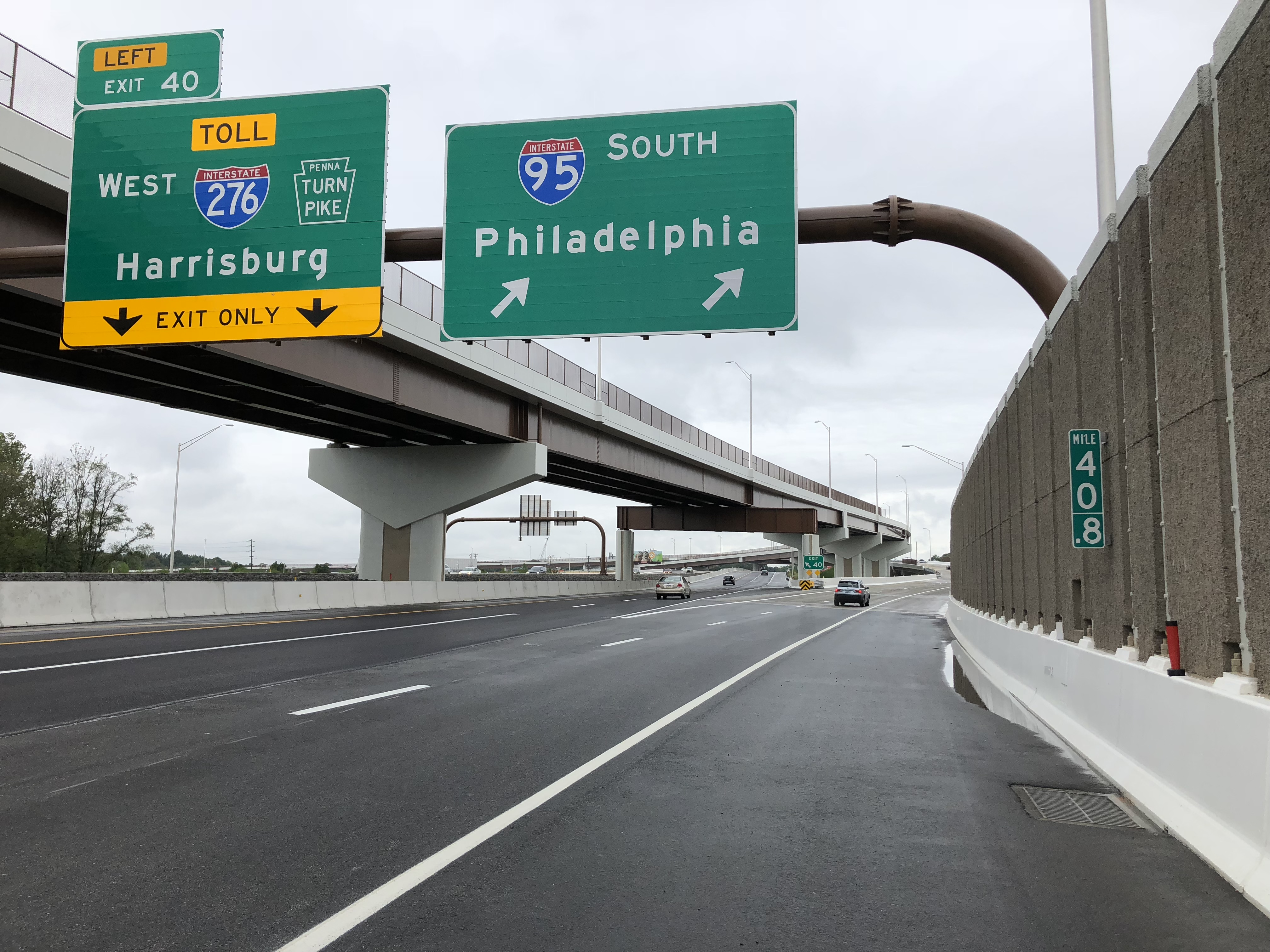 View south along Interstate 95 (Pennsylvania Turnpike Delaware River Extension) at Exit 40 (Interstate 276 WEST/Pennsylvania Turnpike, Harrisburg) in Bristol Township, Bucks County, Pennsylvania